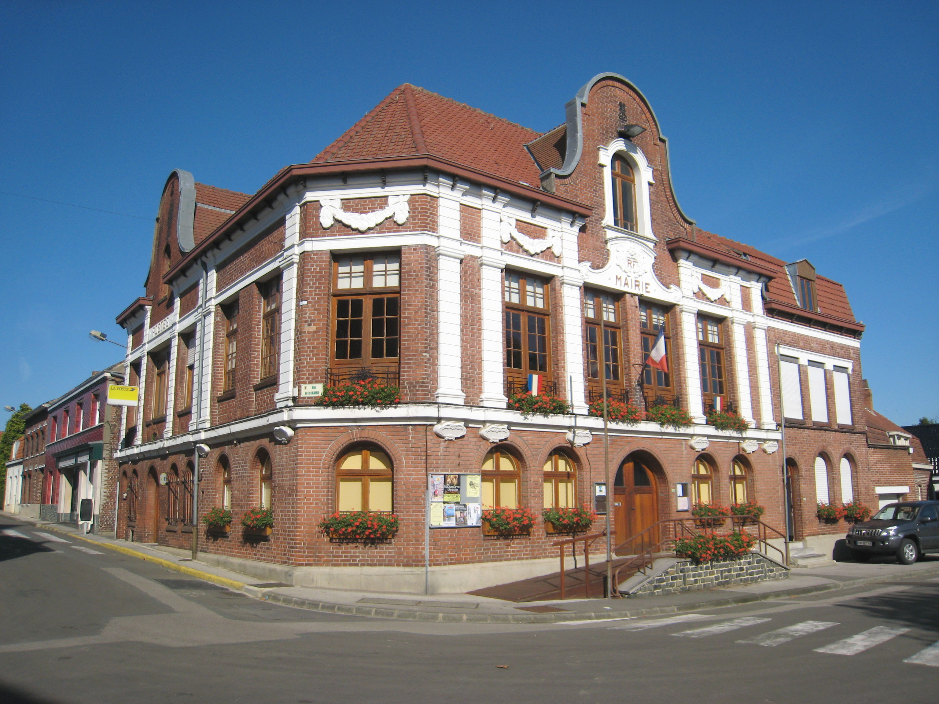 The Mairie, Boeschepe